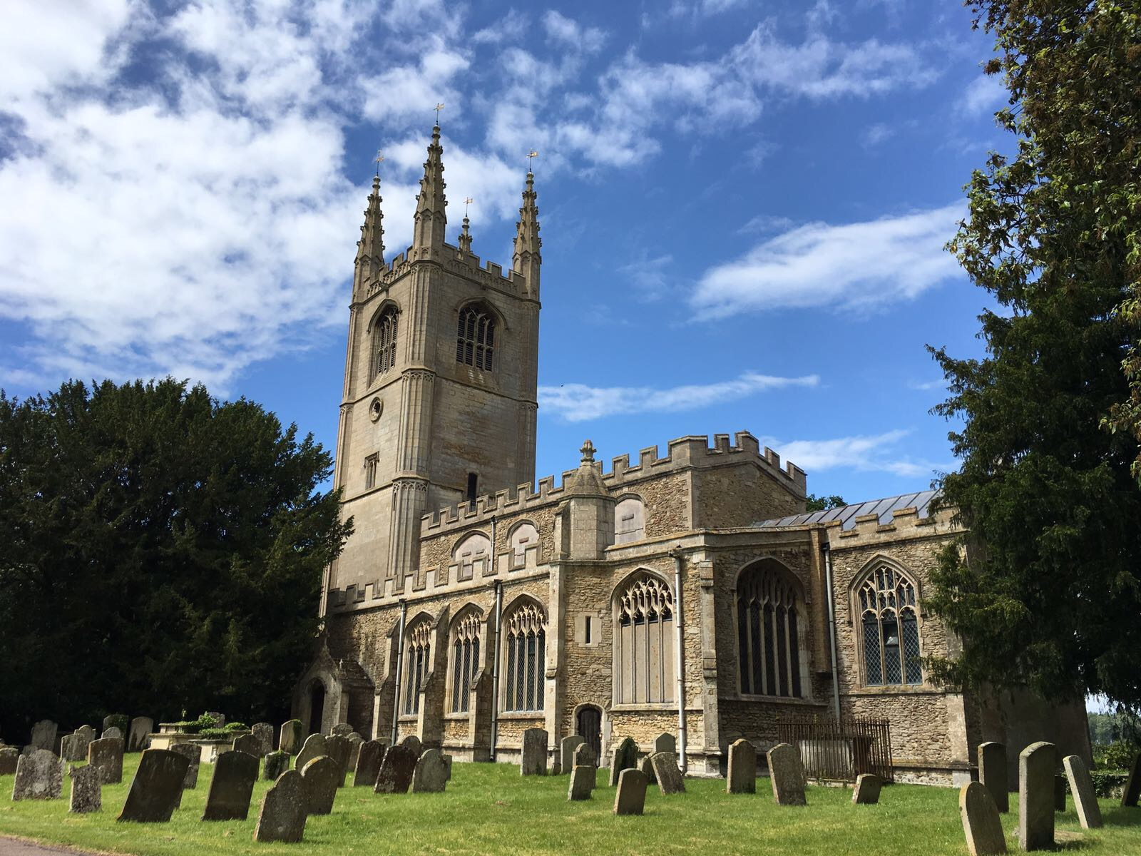 All Saints' parish church, Conington, Cambridgeshire (formerly Huntingdonshire), seen from the southeast